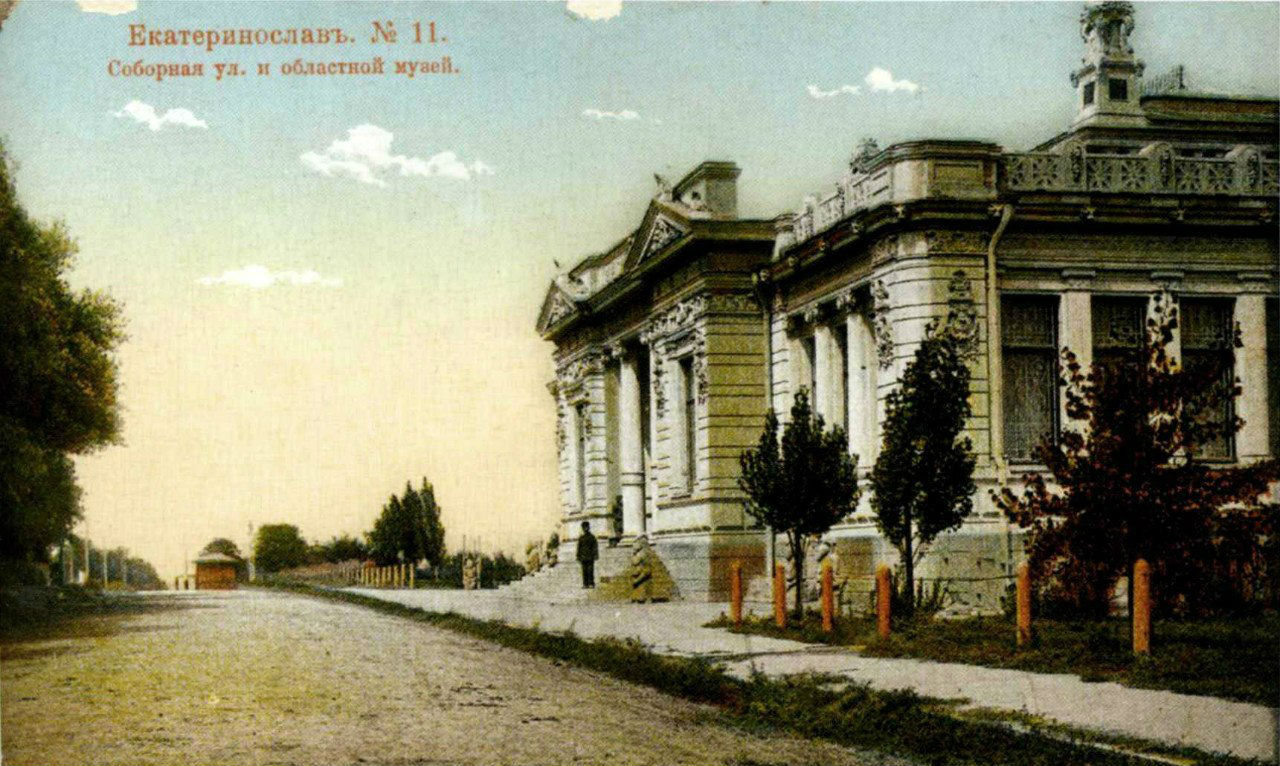 Фото начала 20 века.